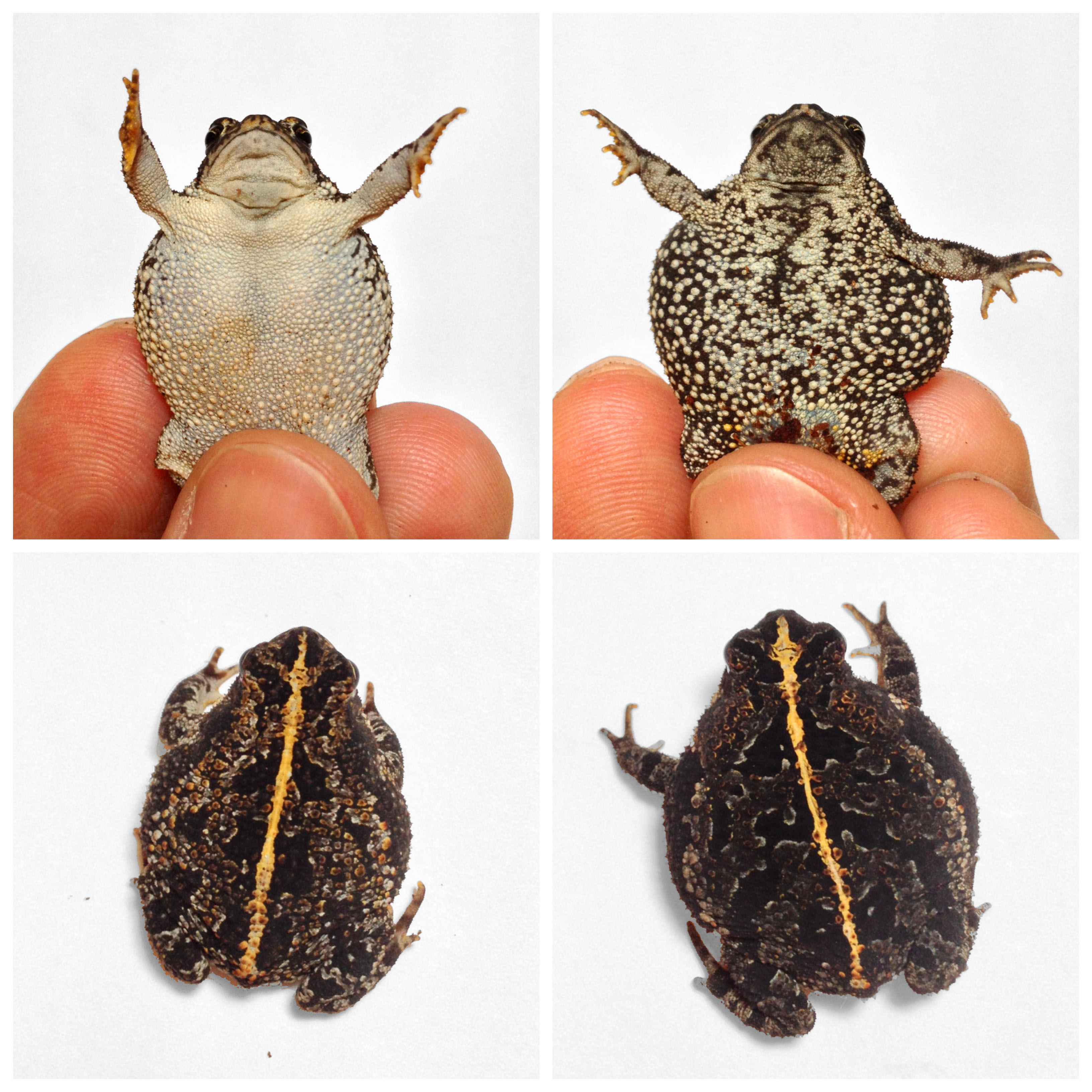 Comparison of male (left) and female (right) toads of the species Bufo quercicus (Oak toad). Note the sharply contrasted ventral surface, the presence of loose skin on the male's throat (vocal sac), and the slightly larger size of the female. Each toad is capable of darkening or lightening its coloring; the female was slightly darker when this photo was taken.